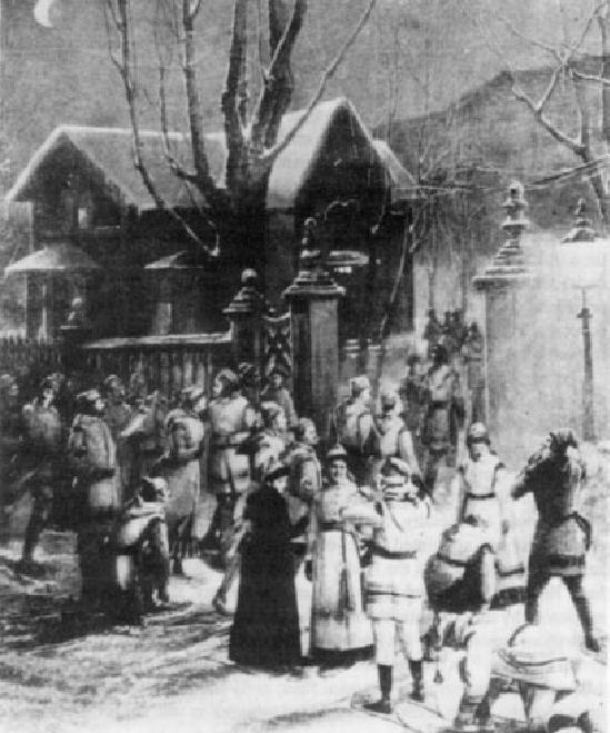 The Rendezvous at McGill College Gates of the Montreal Snow Shoe Club, 1889.